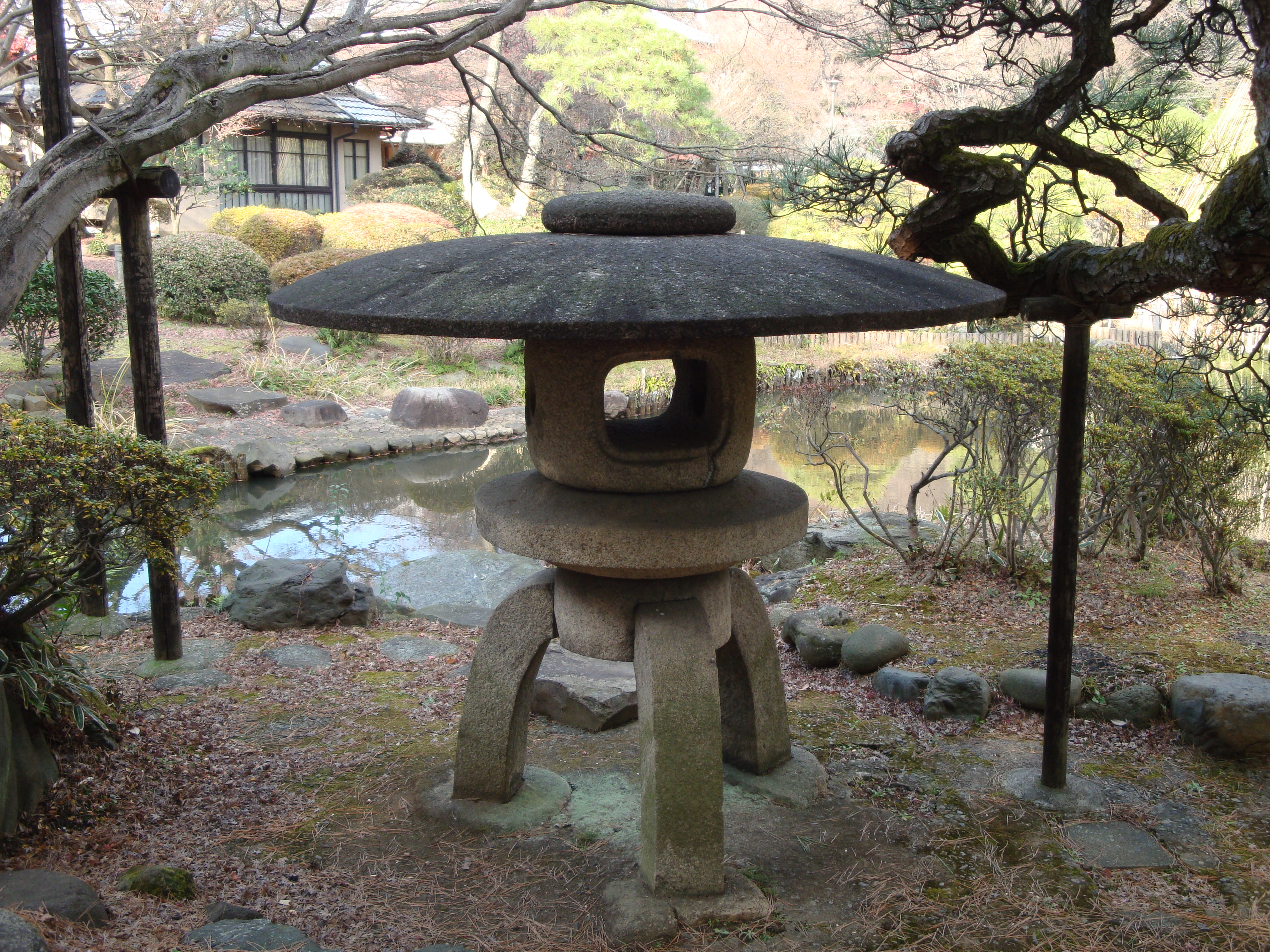 Shin-Edogawa Garden, Bunkyo, Tokyo